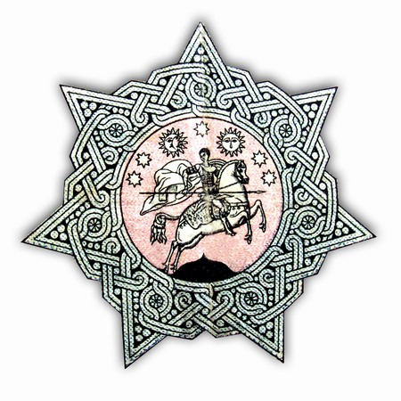 Coat of arms of the Democratic Republic of Georgia, en:1918-en:1921